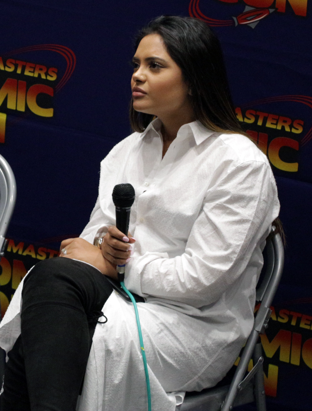 Afshan Azad on stage @ 2019's Film and Comic Con Glasgow